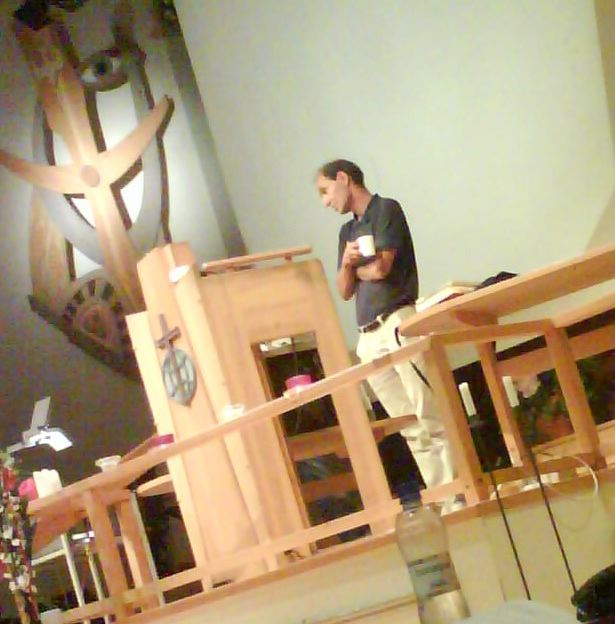 Eivind Smith giving a lecture